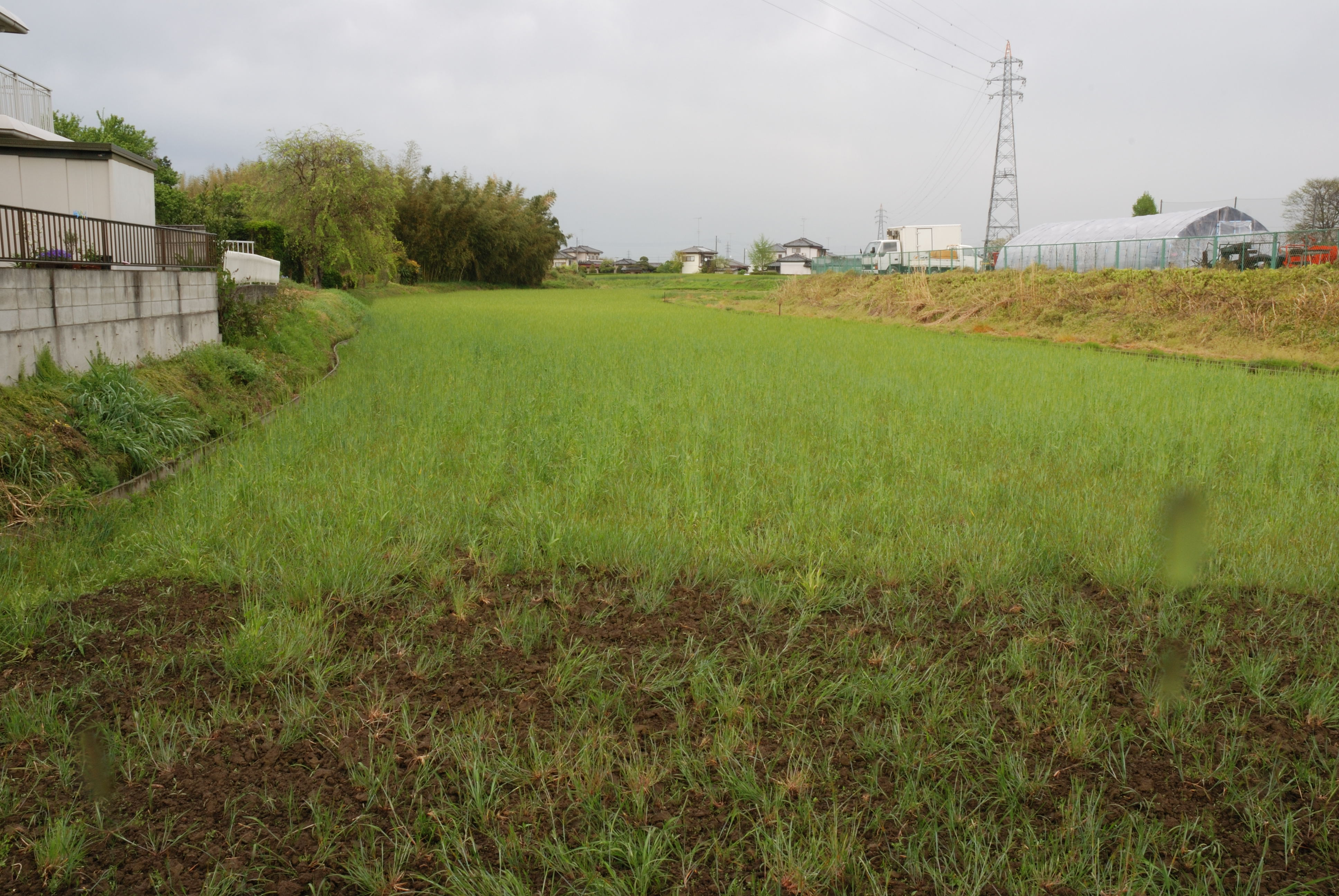 Higashidate hori